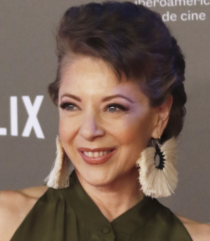 Edith Gonzalez and husband Lorenzo Lazo on the red carpet of Fenix Awards. Mexico City, 6 December, 2017. Photographer: Milton Martinez / Secretaria de Cultura CDMX.